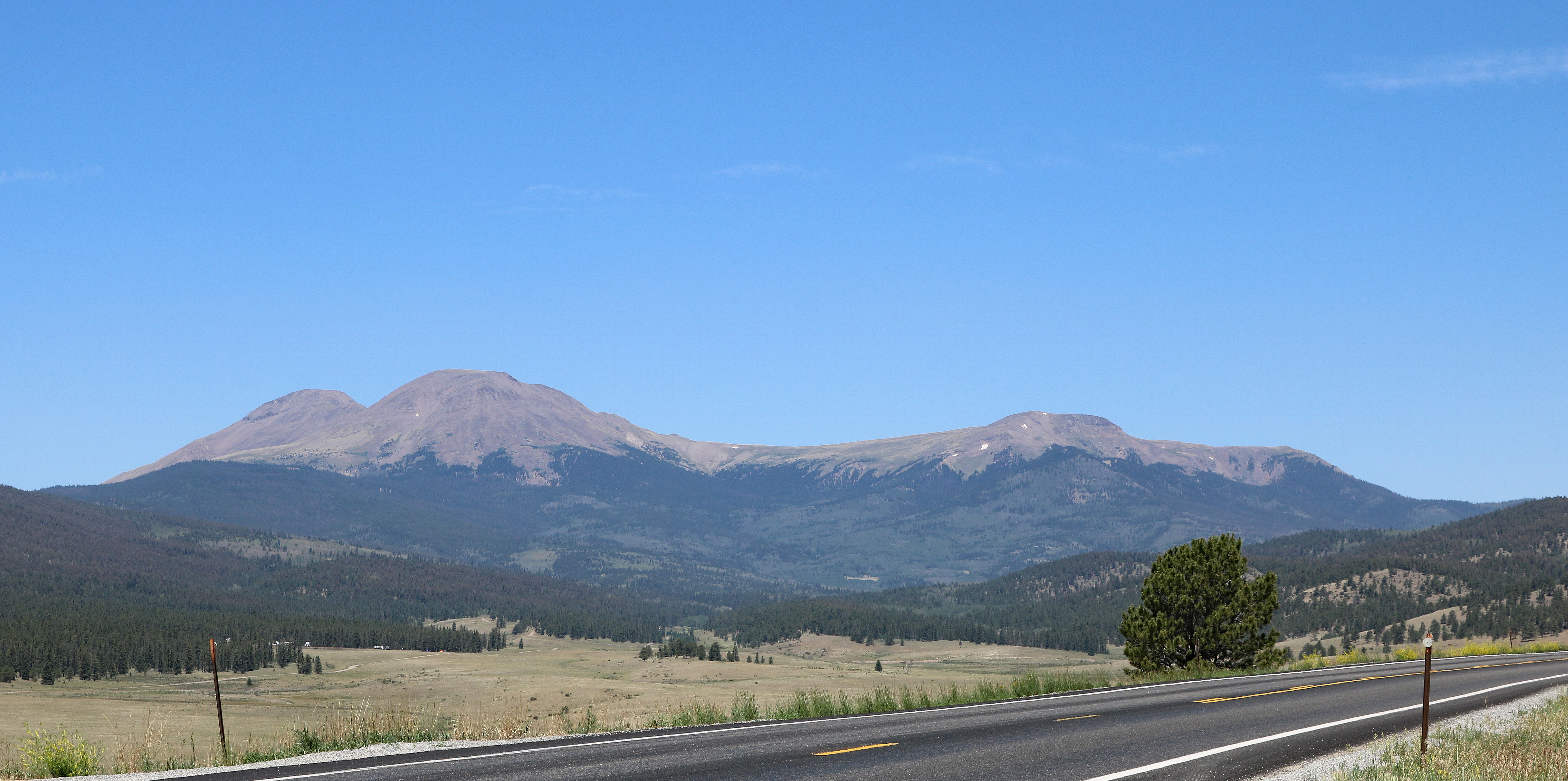 The Buffalo Peaks Wilderness in the San Isabel National Forest and Pike National Forest in Chaffee and Park counties in Colorado. The view is from U.S. Route 285.